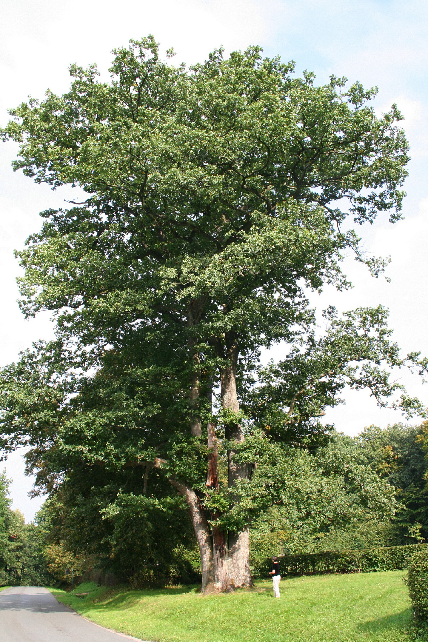 Pedunculate oak.